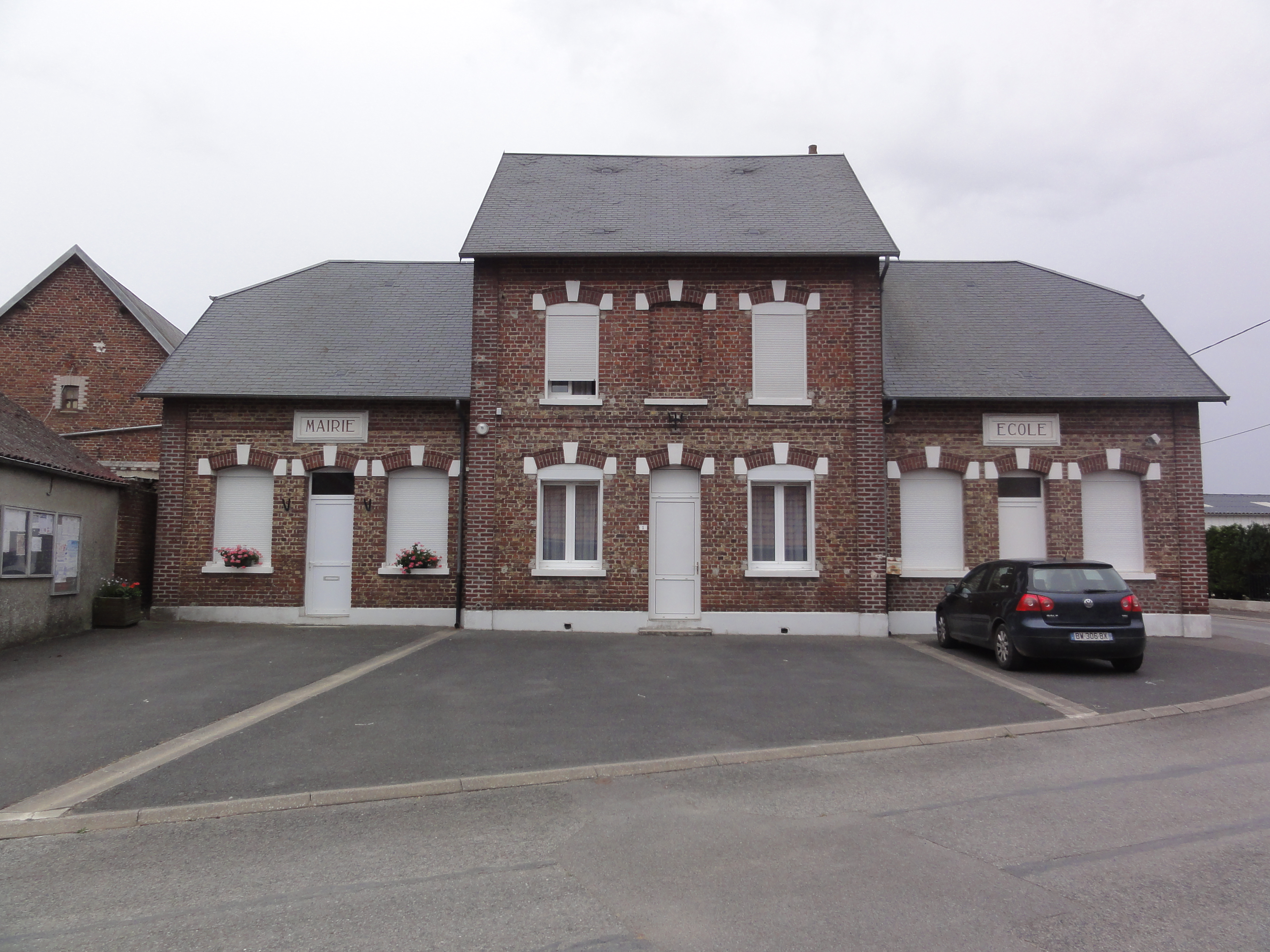 Benay (Aisne) mairie-école